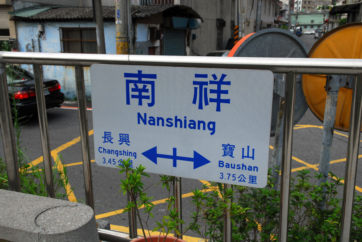 Nanshiang Station is a small station on Linkou Line. In the photo showed the station information sign on the platform.